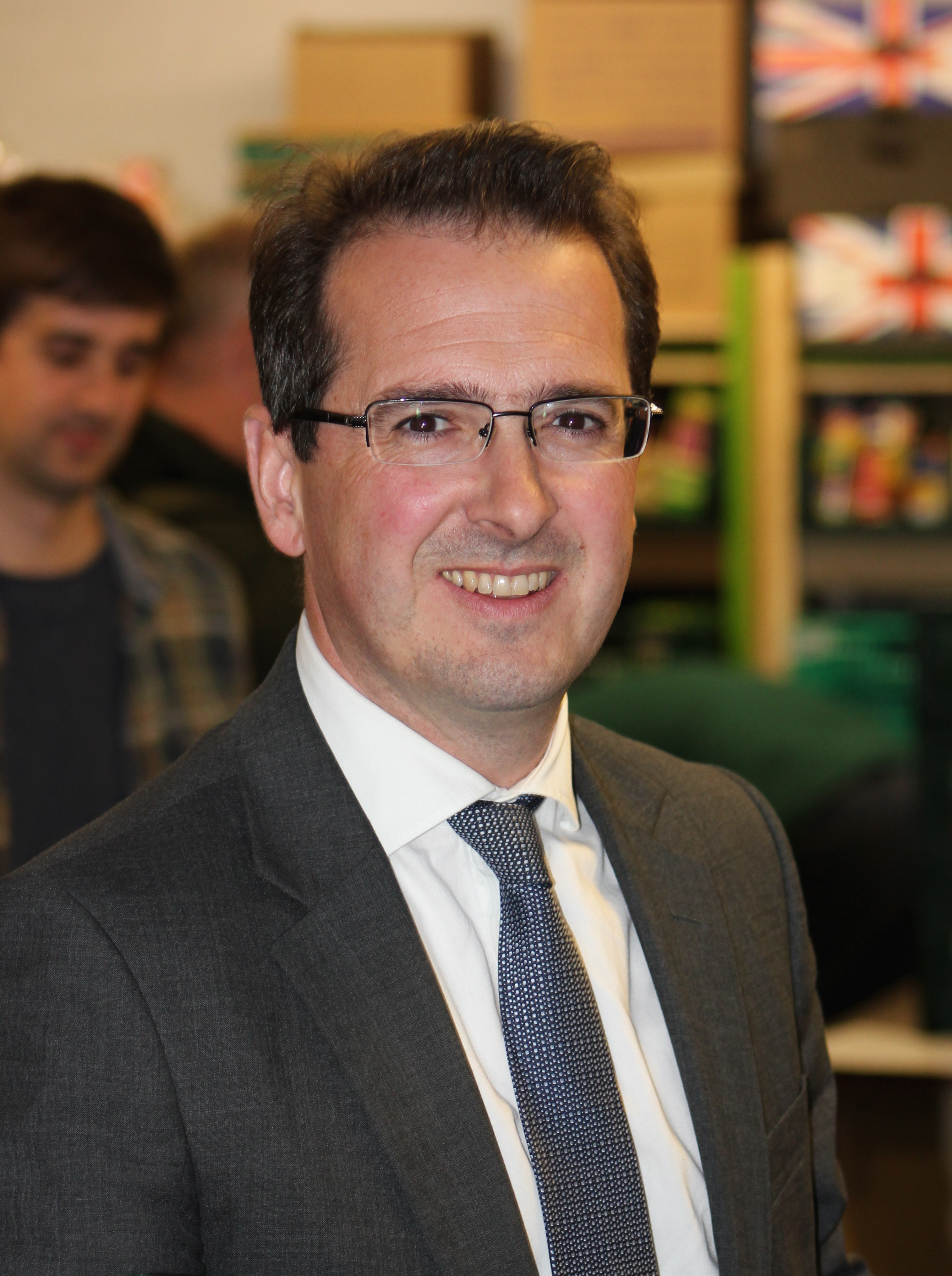 Cropped version of